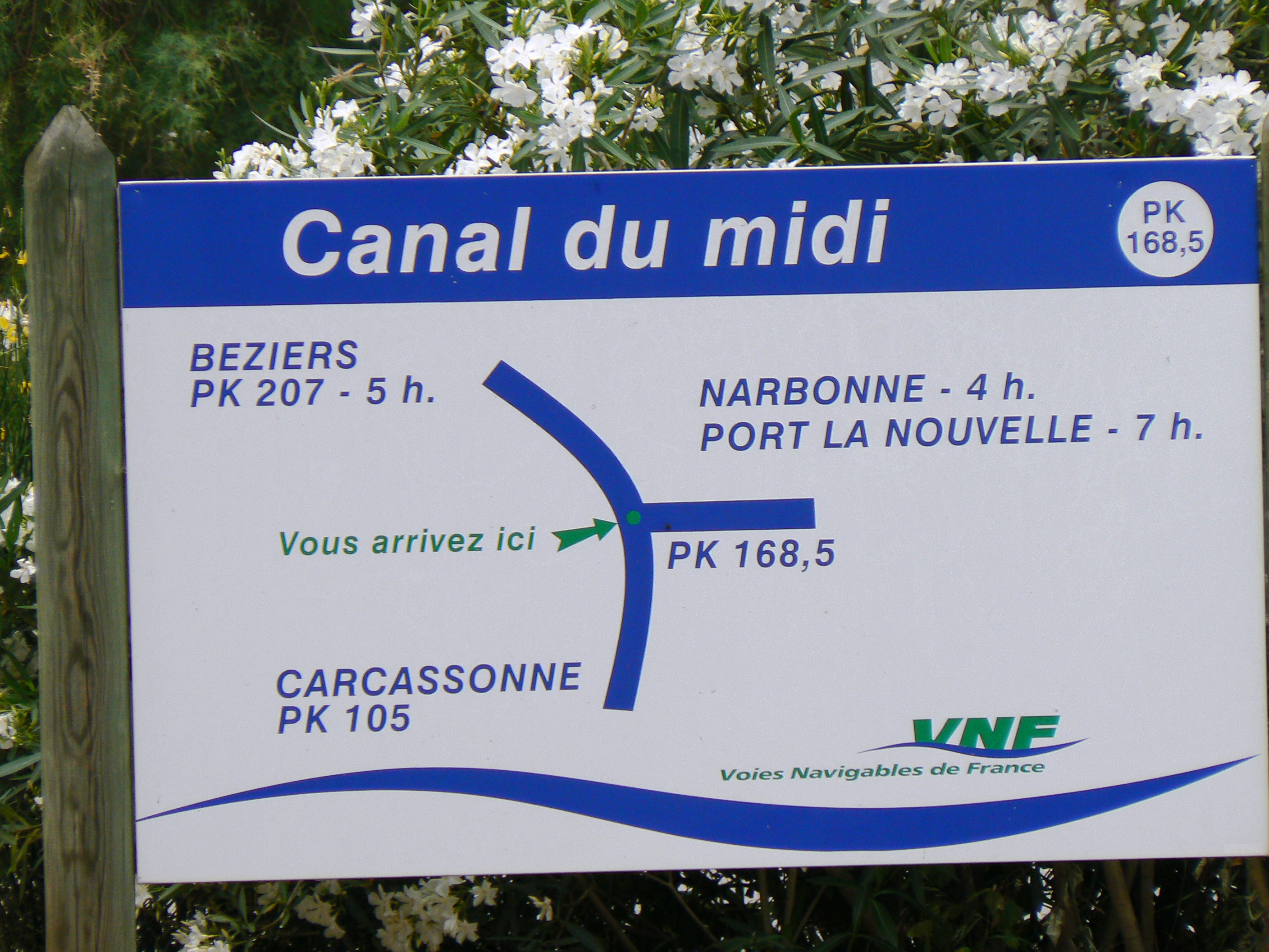 Canal_du_Midi_&_Canal_de_Jonction_sign